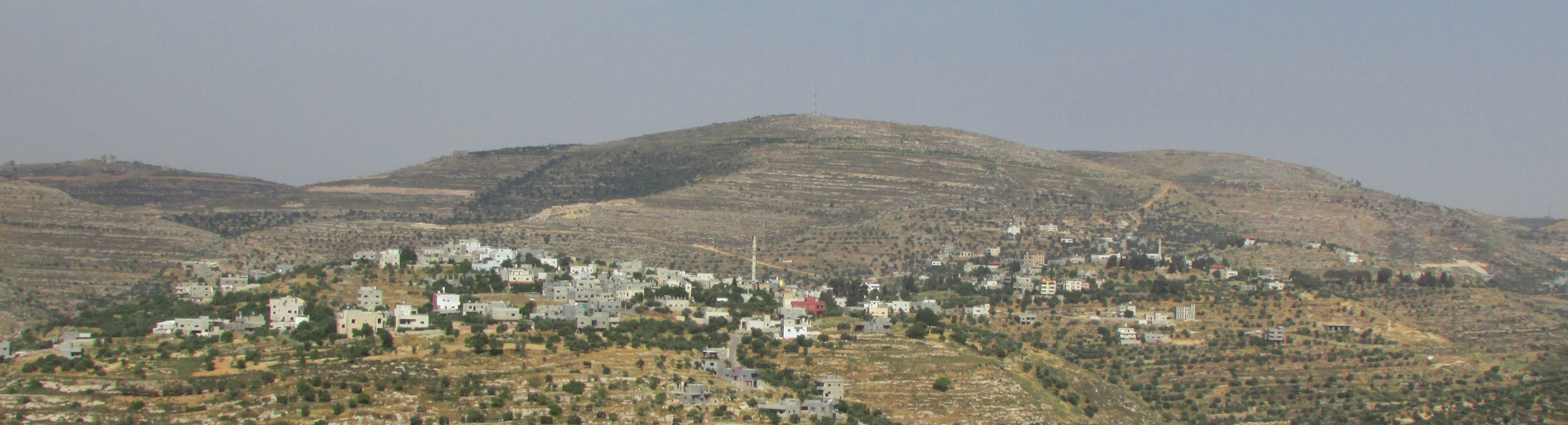 Talfit from Palgei Mayim in the west